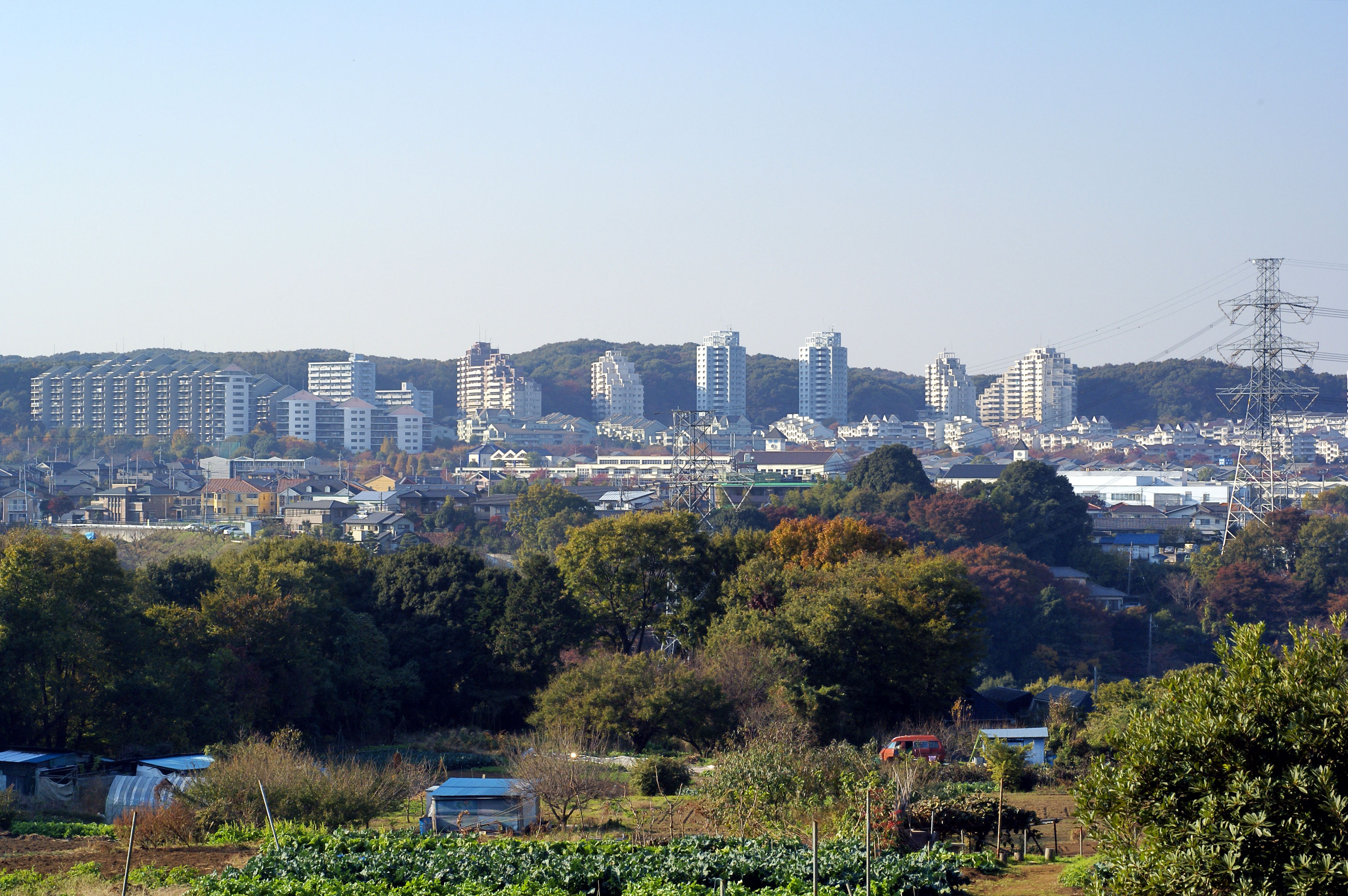 Landscape of Koyodai, view from Minamiyama area, Inagi, Tokyo